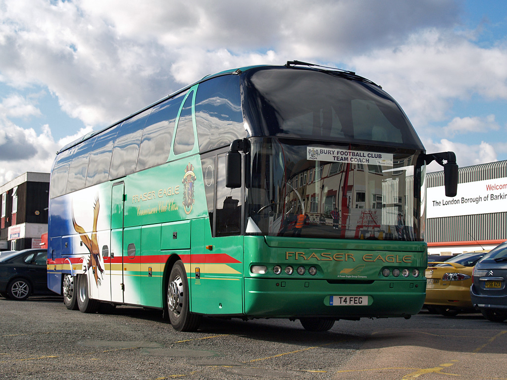 Fraser Eagle Limited (originally Tyrer Tours Limited) T4 FEG, a Neoplan ‘Starliner’ N516SHD built 2002 with a Neoplan C49Ft body at the London Borough of Barking and Dagenham Stadium, home of Dagenham & Redbridge FC while acting as the Bury football club team coach. Saturday18th October 2008